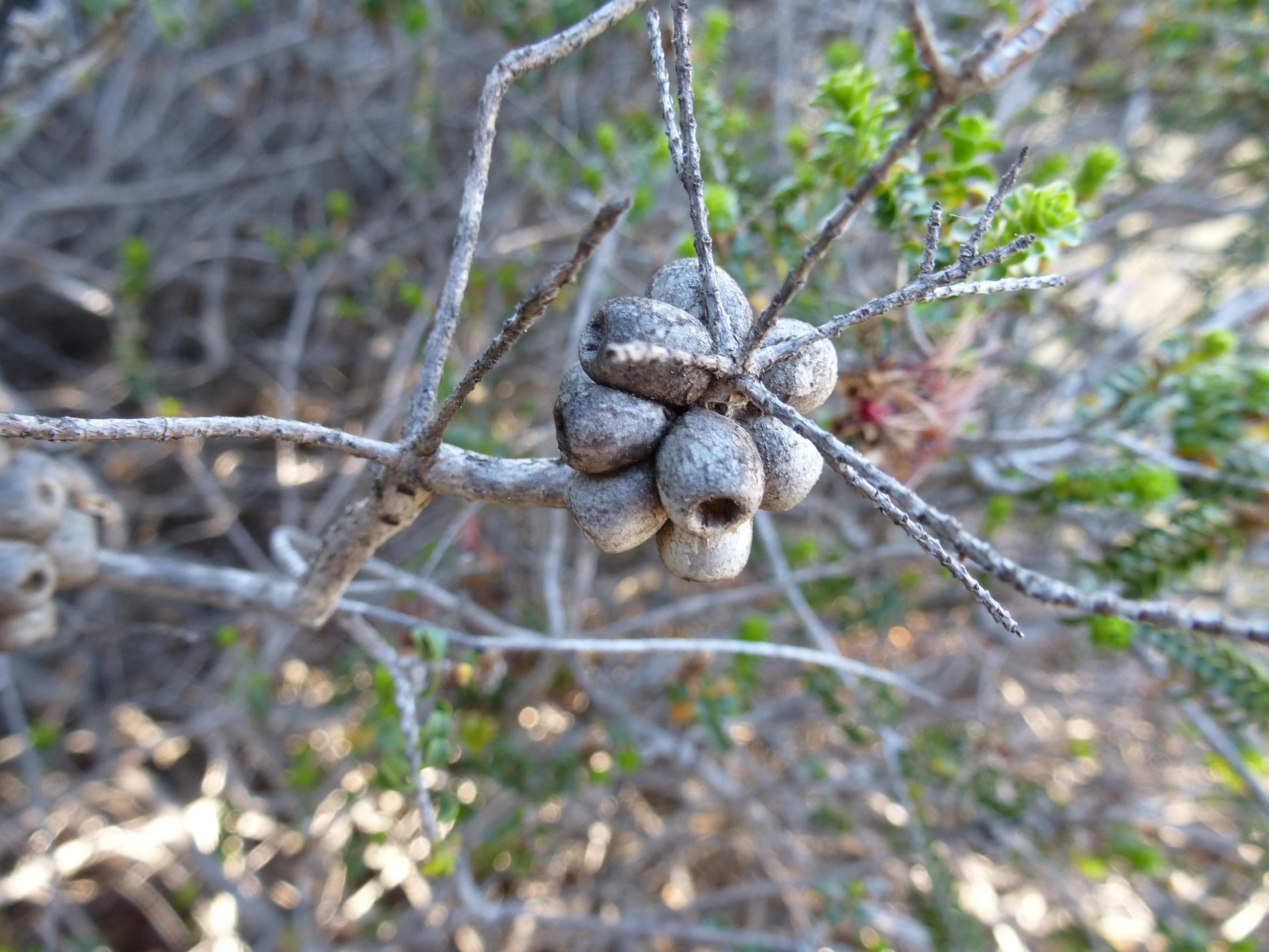 Beaufortia aestiva growing near Binnu